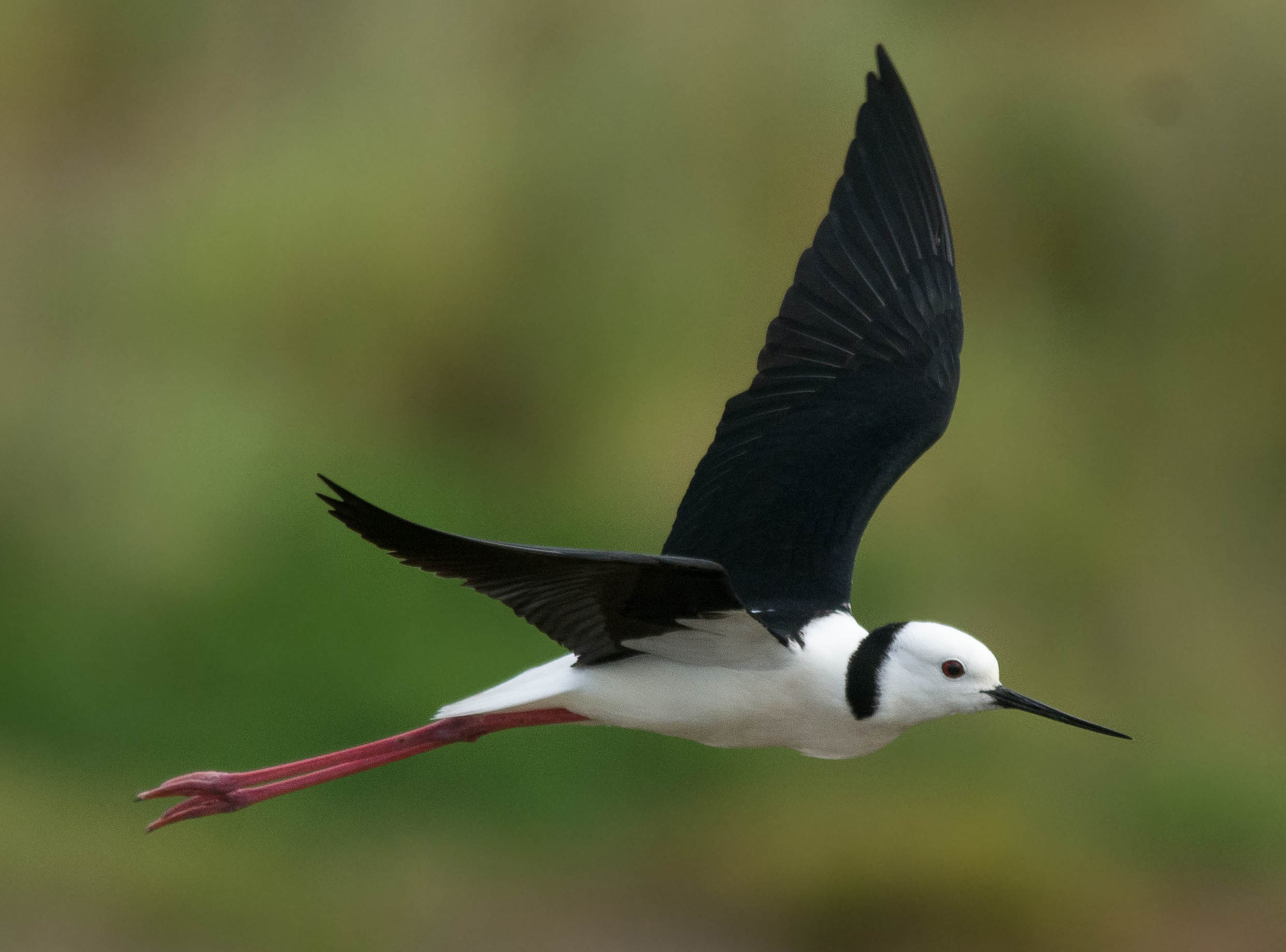 Pied Stilt. Photographs taken from Western Treatment Plant, Werribee, Victoria, Australia